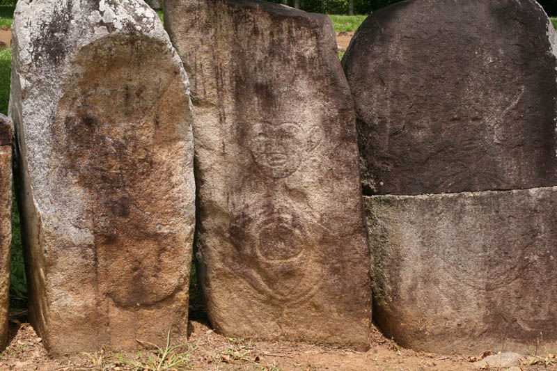 Caguana Ceremonial Ball Courts Site, Puerto Rico